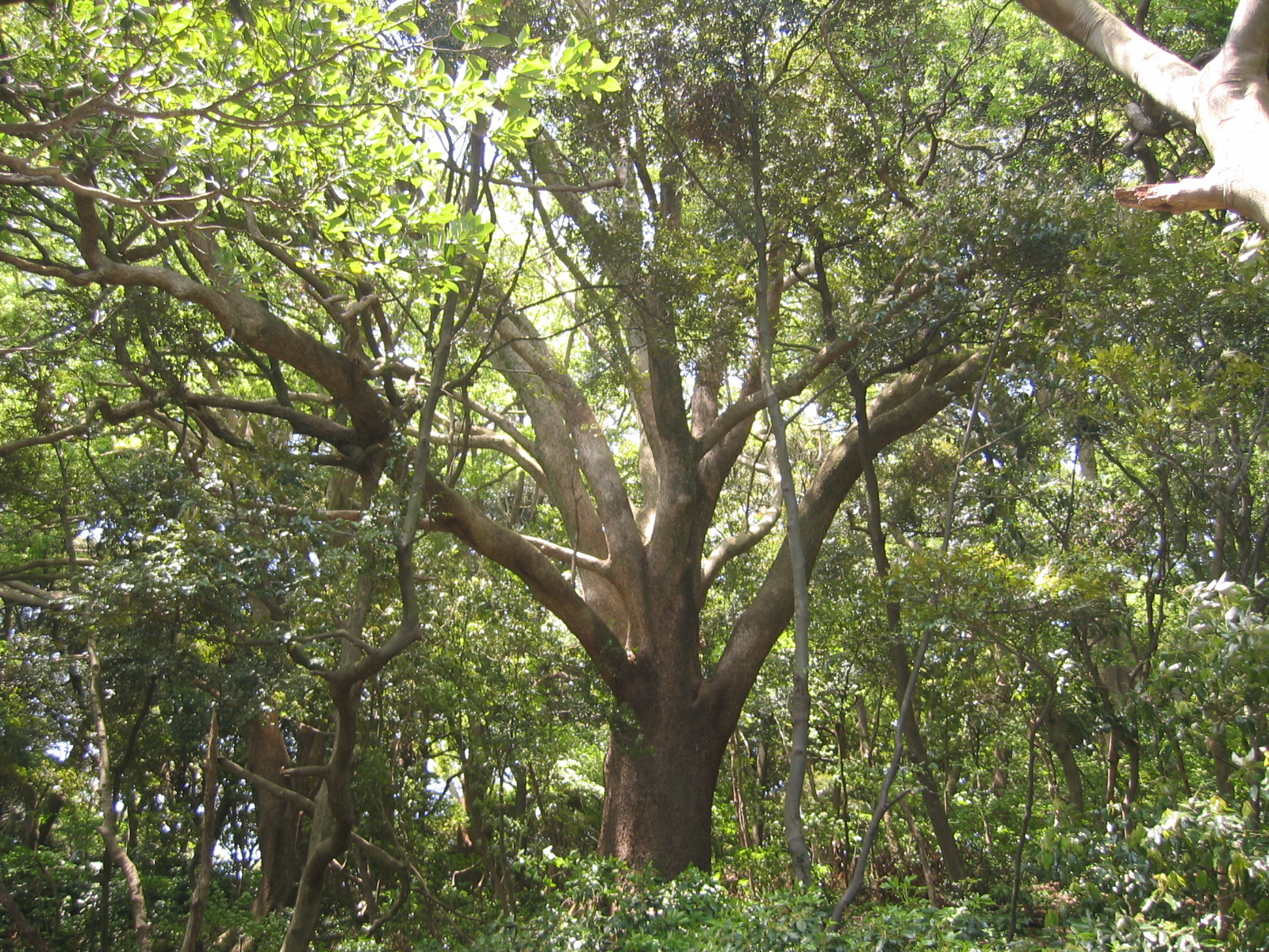 Forest of Manazuru peninsula, Kanagawa Prefecture, Honshu, Japan.